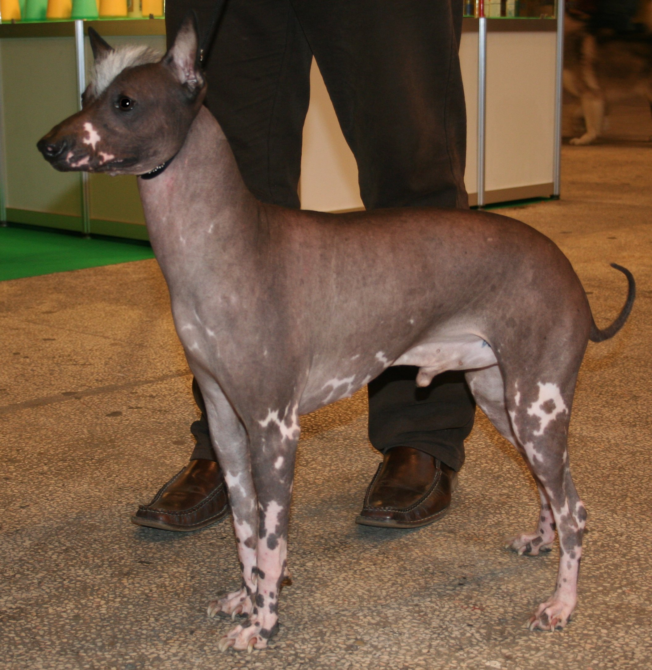 Peruvian Hairless Dog (medium - size) during dogs show in Katowice, Poland